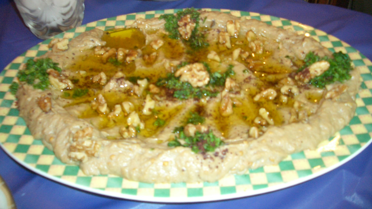 my picture, I took give permission for any use